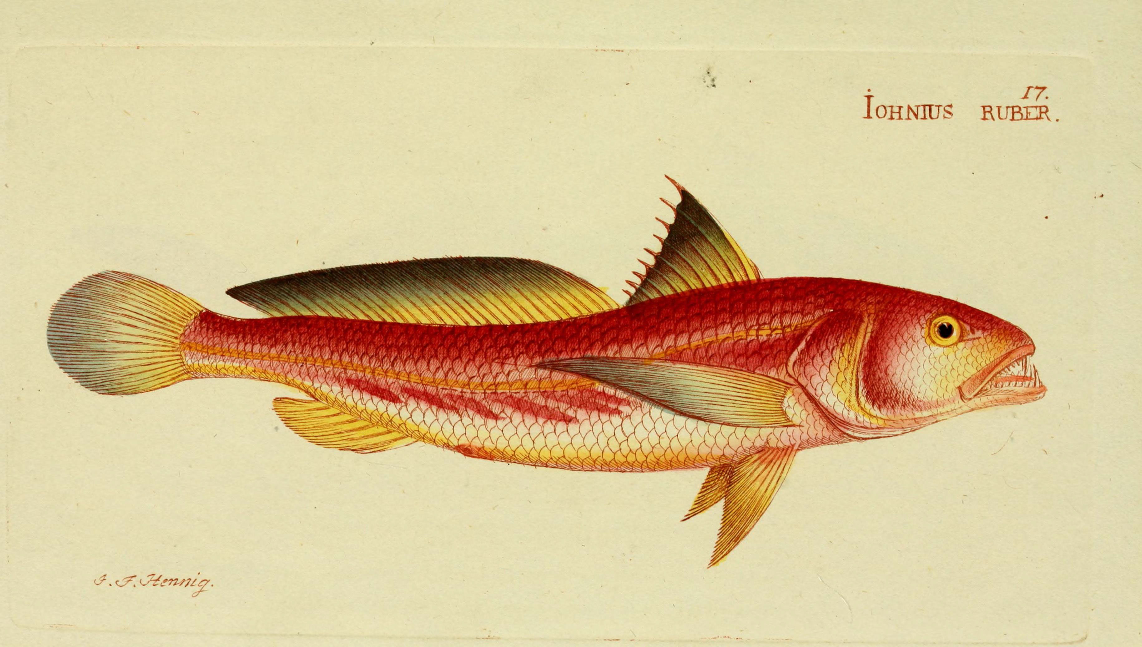 Otolithes ruber syn. Johnius ruber